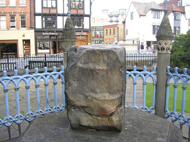 Coronation Stone Thought to have been used for the coronation of up to seven Saxon kings in the tenth Century. The stone was originally kept in St. Mary’s parish church until its collapse in 1730 when the buildings foundations were undermined by grave digging. The stone was then placed in the market square and used as a mounting block for horsemen in the nineteenth Century before being moved to the grounds of the guildhall and installed as a monument in 1935.